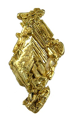 Gold Locality: Papua New Guinea (Locality at ) Size: thumbnail, 2.0 x 1.0 x 0.5 cm Gold An oustanding thumbnail of world class competition quality. This is from the collection of Bill Forrest, owner of the Benitoite Mine. He obtained this personally some 2 decades ago when buying a group of gold crystals in New Guinea. He says this was the single best piece in the lot, and i believe it! The sharp symmetry of the piece is fascinating and beautiful, and of a fine filligree that makes it stand out from any California material. It is truly one of the best gold thumbnails for this style of crystallization that I have seen. (not from the Mauthner Collection)